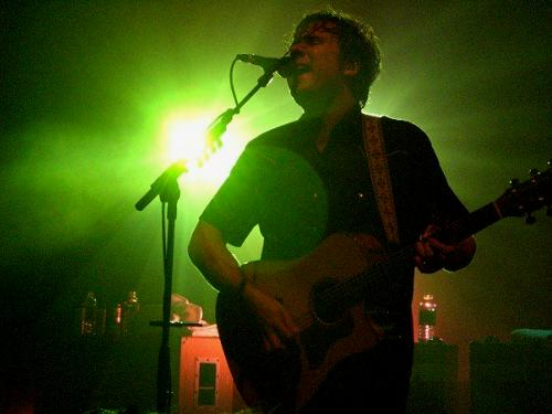 Jimmy Eat World performing at the 9:30 Club in Washington, DC in October 2007.